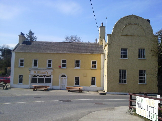 Killian's Bar, The Naul, Co Dublin Killian's Bar is the only pub in The Naul, a small village in north county Dublin. In the 18th century the village was on the main road from Dublin to Drogheda and Belfast.